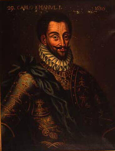 Charles Emmanuel I, Duke of Savoy (1562-1630)